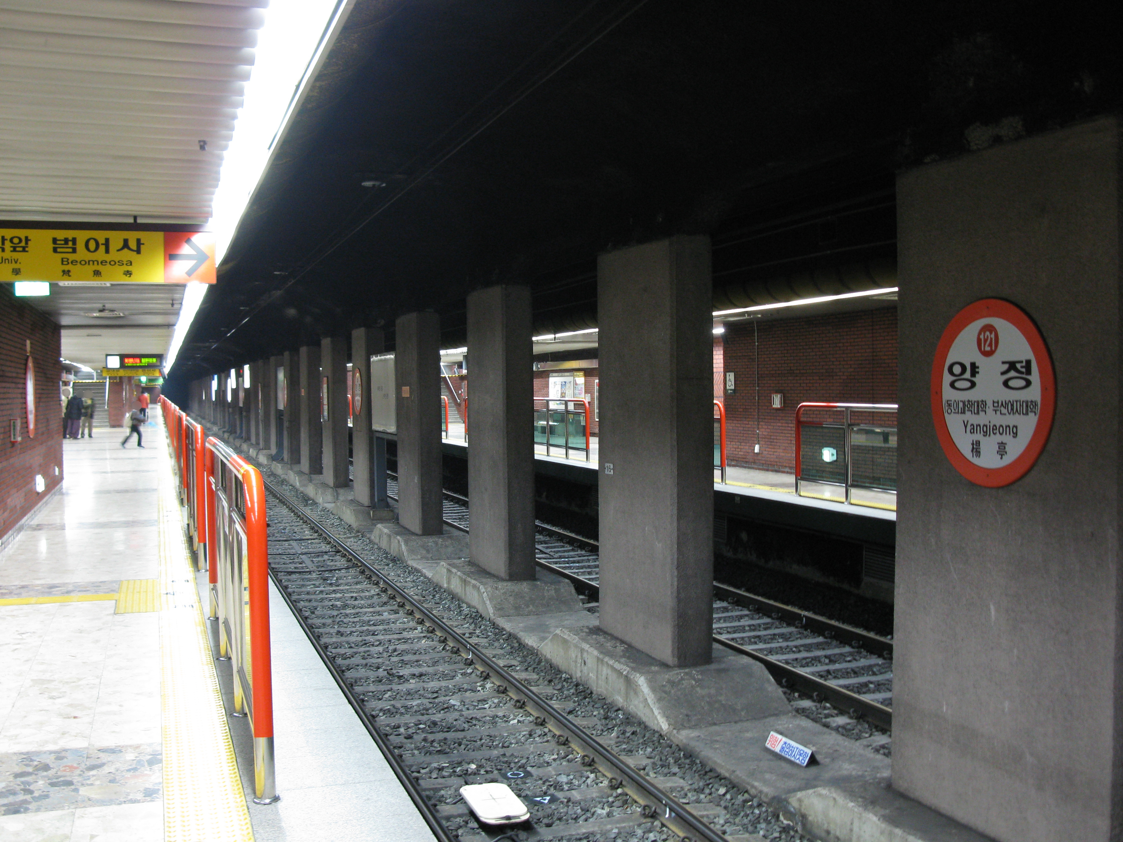 The platforms at Yangjeong Station on the Busan Subway Line 1 in Busanjin-gu, Busan, Republic of Korea(South Korea)